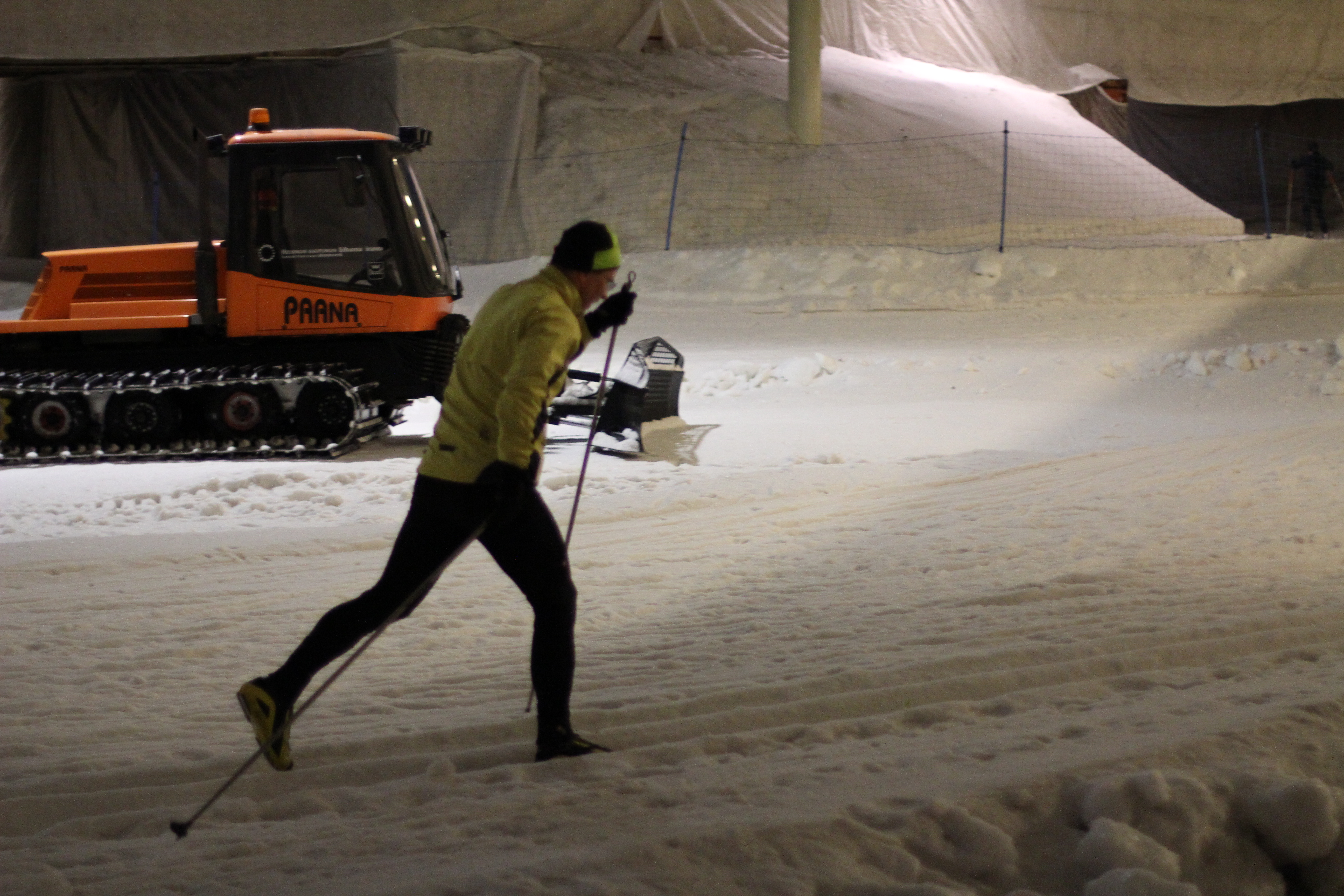 Kivikko skiing hall (Ylläs-halli)), Kivikko, Helsinki, Finland. - Skiiing inside.